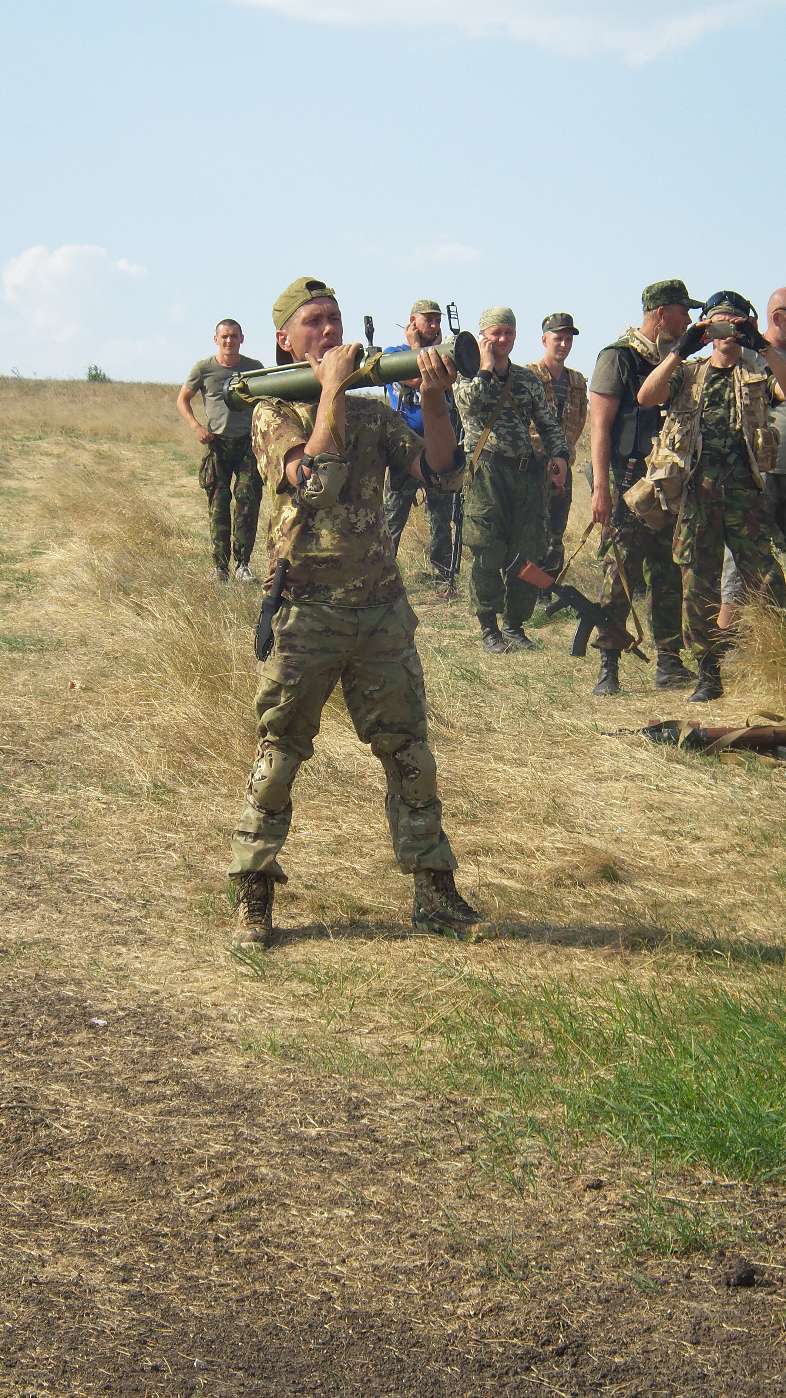 Aidar Battalion. Lugansk region, Ukraine.